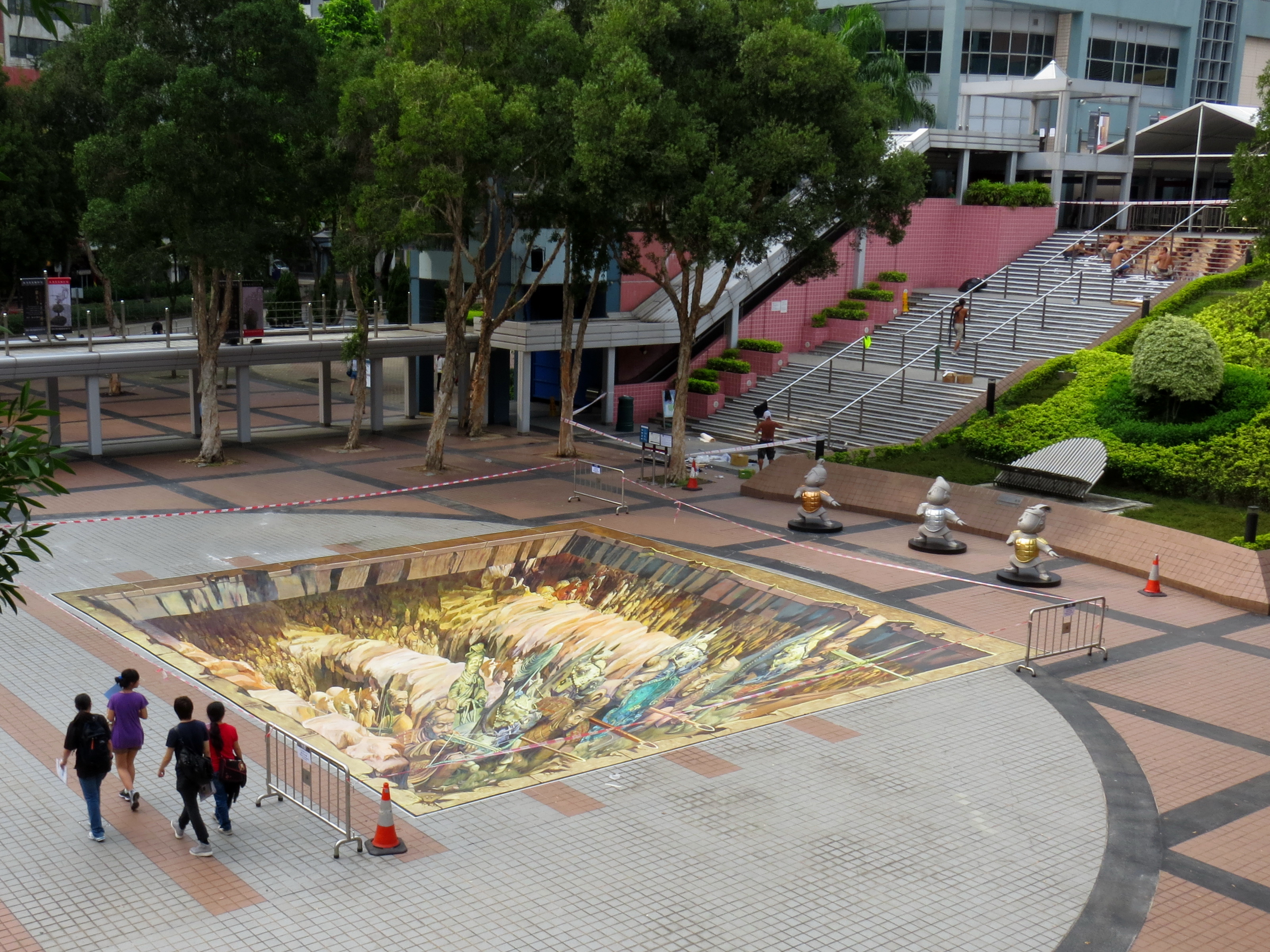 “The Majesty of All Under Heaven : The Eternal Realm of China's First Emperor” Exhibition. Three dimensional painting of the Terracotta Army pit at the Lower Piazza of the Hong Kong Museum of History.